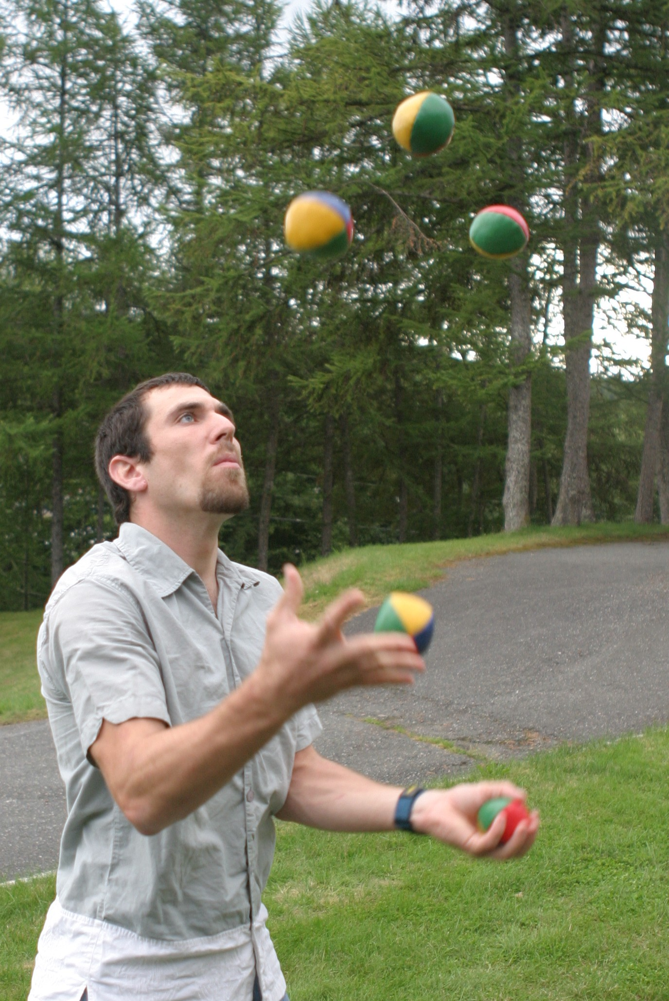 Picture taken of me juggling.